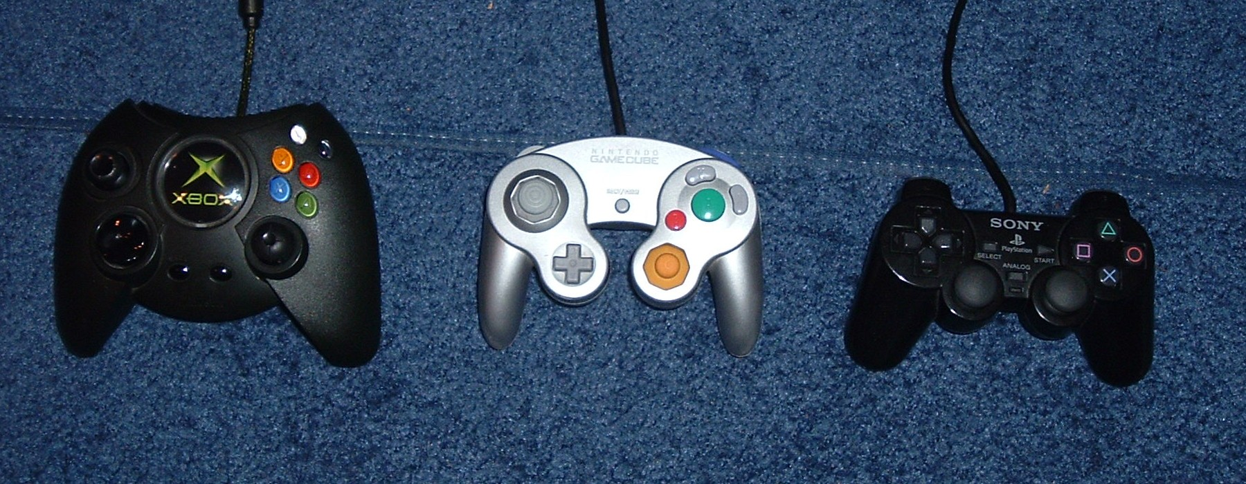 Sixth generation era game controllers. From left: Xbox controller, GameCube controller, and PlayStation 2 controller.